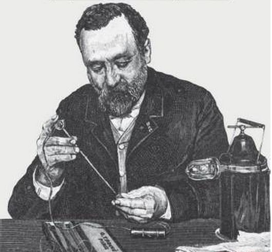 Gustave Trouve' at work